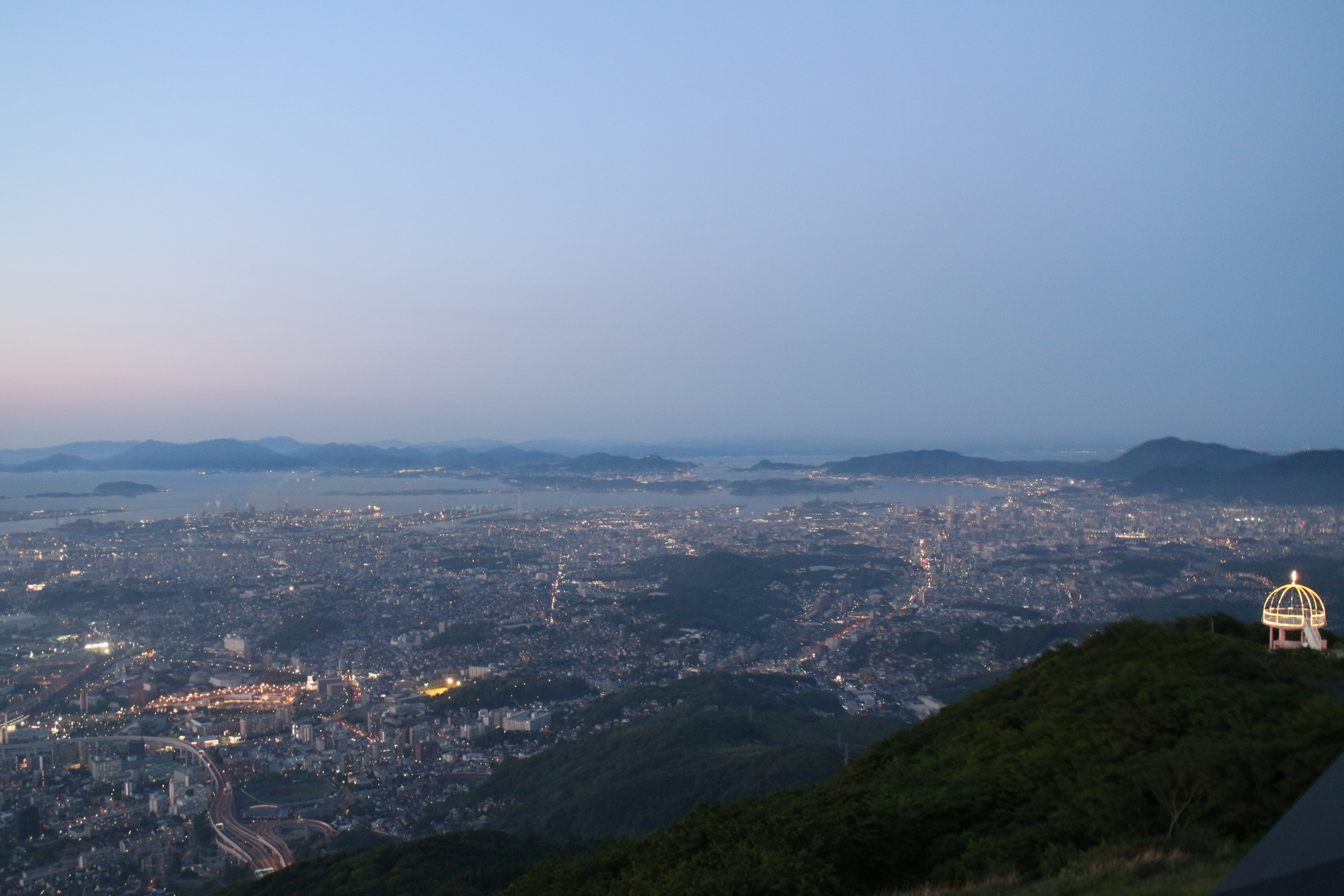 Night Views from Mount Sarakura